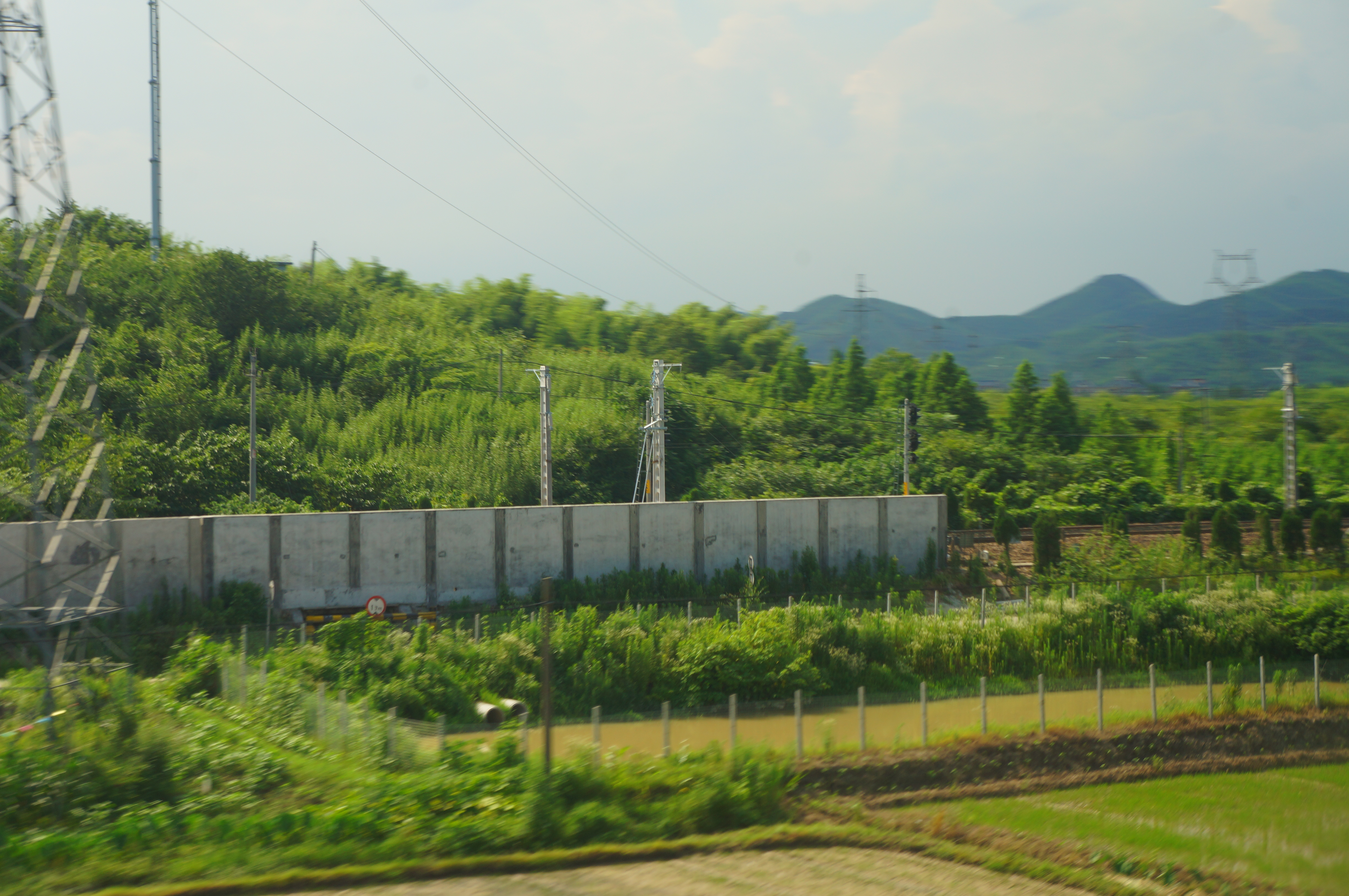 201806 Electrification Project of Xuancheng-Hangzhou Railway